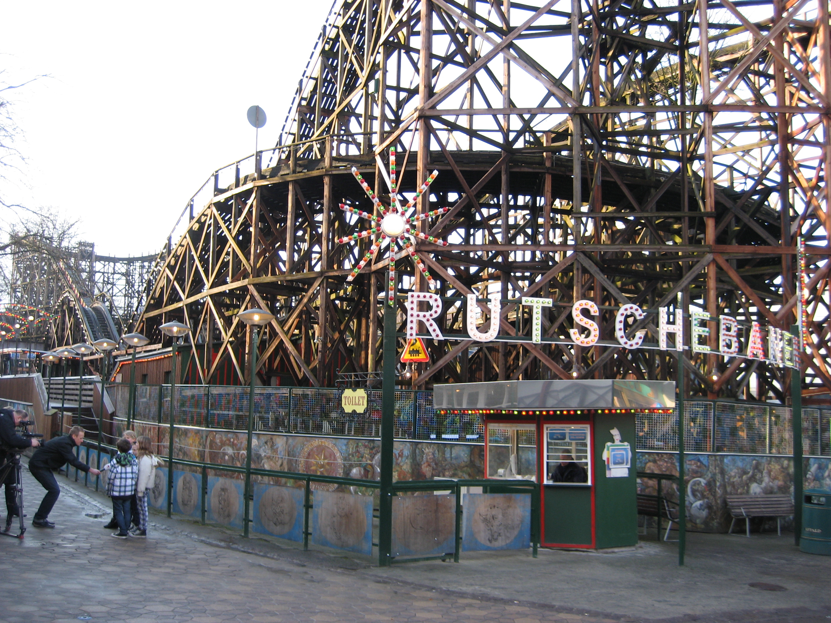 Rutschebanen roller coaster at Dyrehavsbakken, or Bakken, the world's oldest operating amusement park.